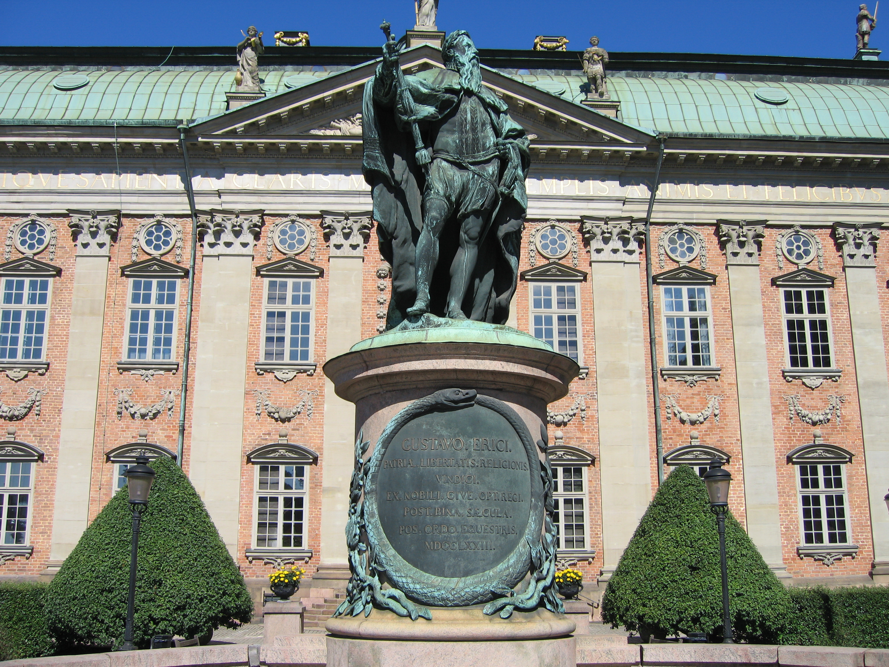 House of Nobility in Stockholm